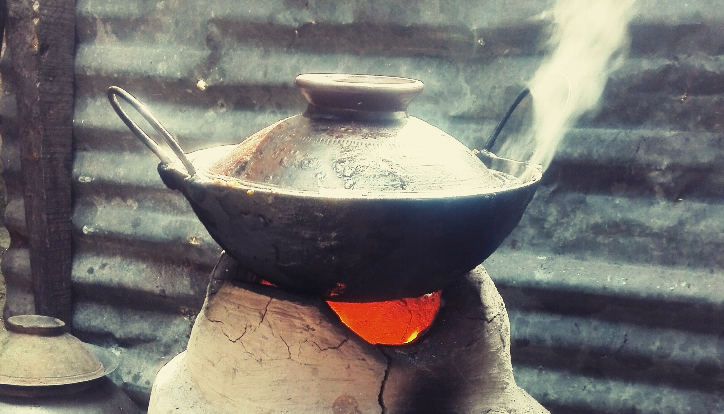 korai with earthen lid